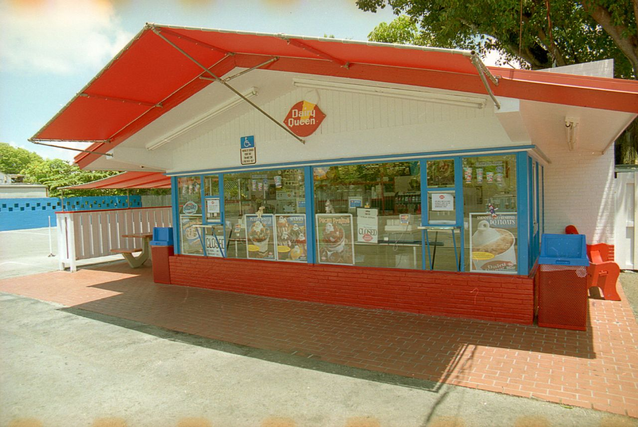 The Dairy Queen at 1207 United Street. From the Dale McDonald Collection.